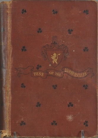 original cover of Tess of the D'Urbervilles